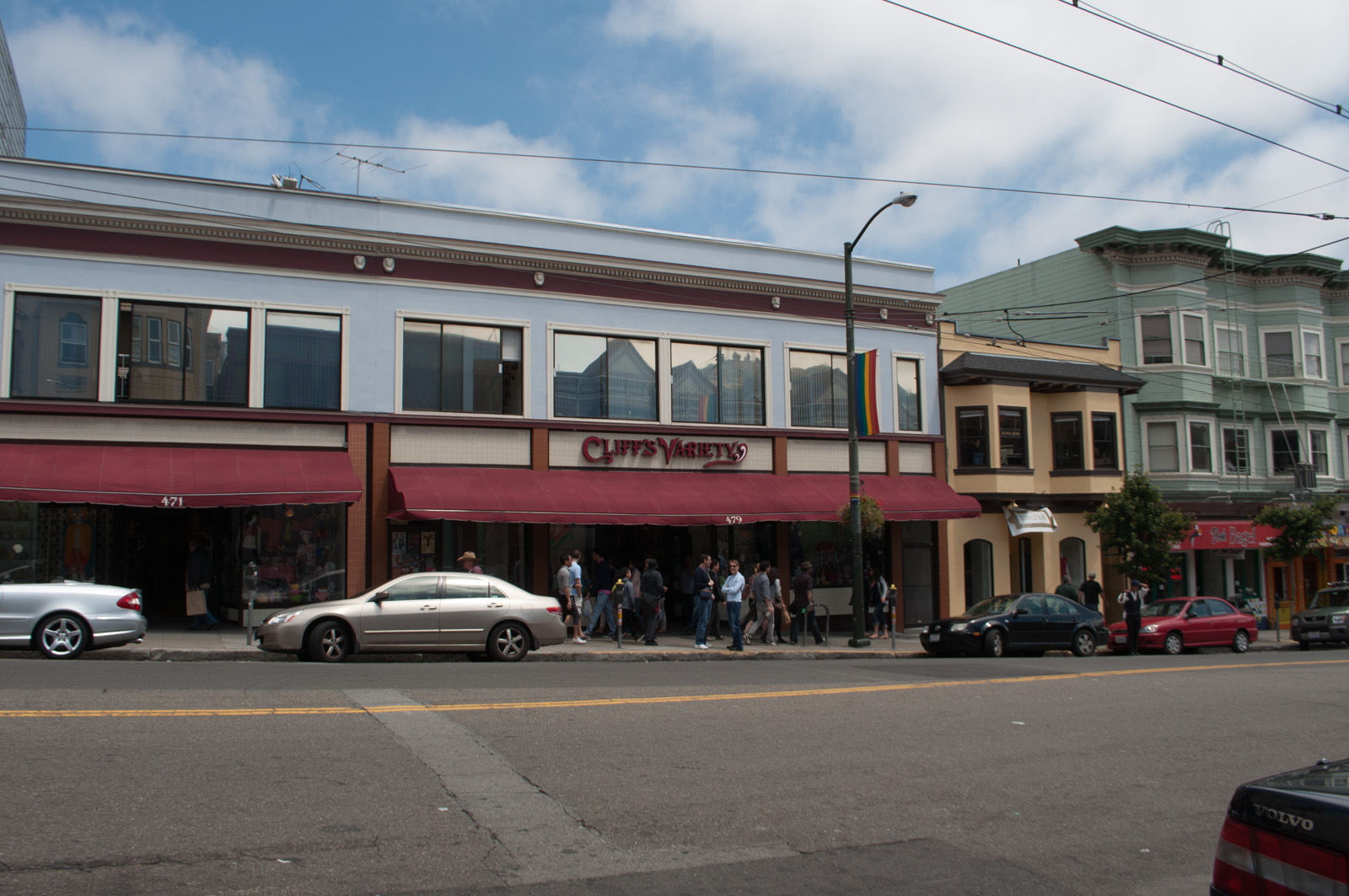 Cliff's Variety is now occupying the location of what used to be The Castro Theater in the 1910s, and later Bon Homme variety store. A Different Light, an independent bookstore that had excellent selection of books and gifts dealing with LGBT topics. was founded at 489 Castro. A Different Light eventually opened two more locations - in Greenwich Village, New York City and West Hollywood in Southern California - and served as gay community centers in the cities they were located in, especially during the dark years of the AIDS epidemic and the homophobia of the Reagan Administration. But between the mainstreaming of the LGBT community and the proliferation of online bookstores, A Different Light could no longer compete, and forever closed its doors in 2010. The Castro, smack in the dead middle of San Francisco, is the heart of gay San Francisco. It is said to be the gayest neighborhood in America, and the rainbow flags on the light poles show the gay pride. Like most other famed gay neighborhoods, this area is overwhelmingly male; lesbians are more likely to be found over the hill in Noe Valley living next to heterosexual families.